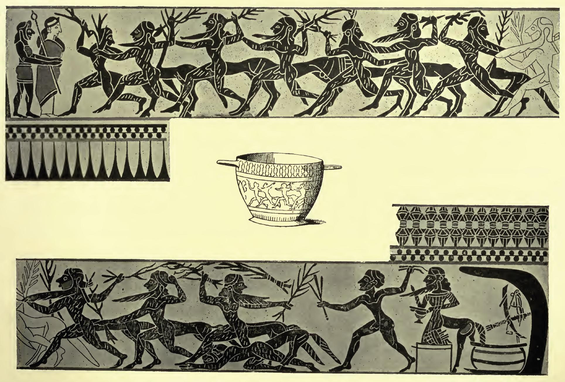 Heracles, Pholus and the centaurs. Black-figured skyphos, ca. 580 BC. From Corinthe.